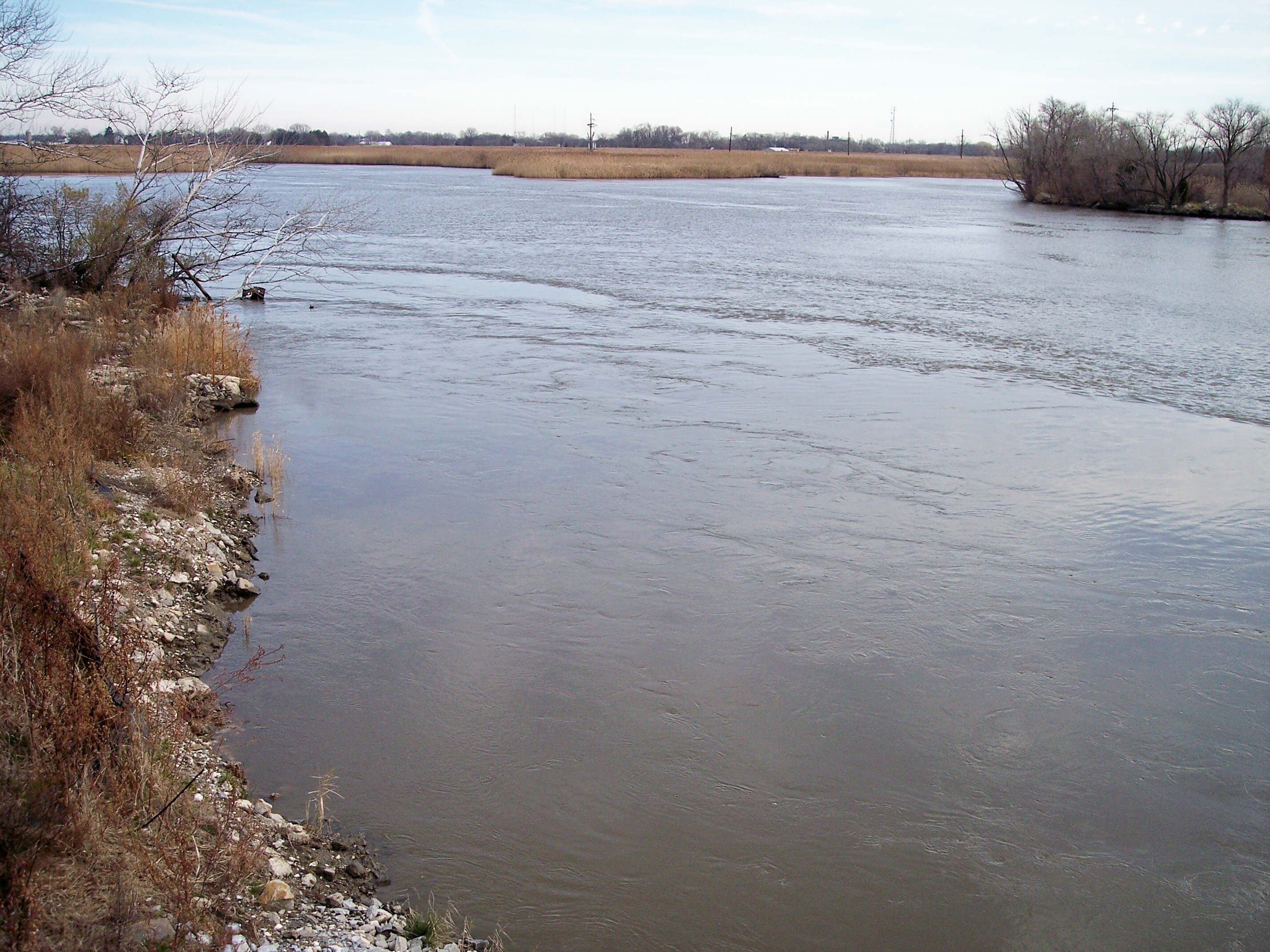 The Salem River looking upstream from New Jersey Route 49 in Salem, New Jersey